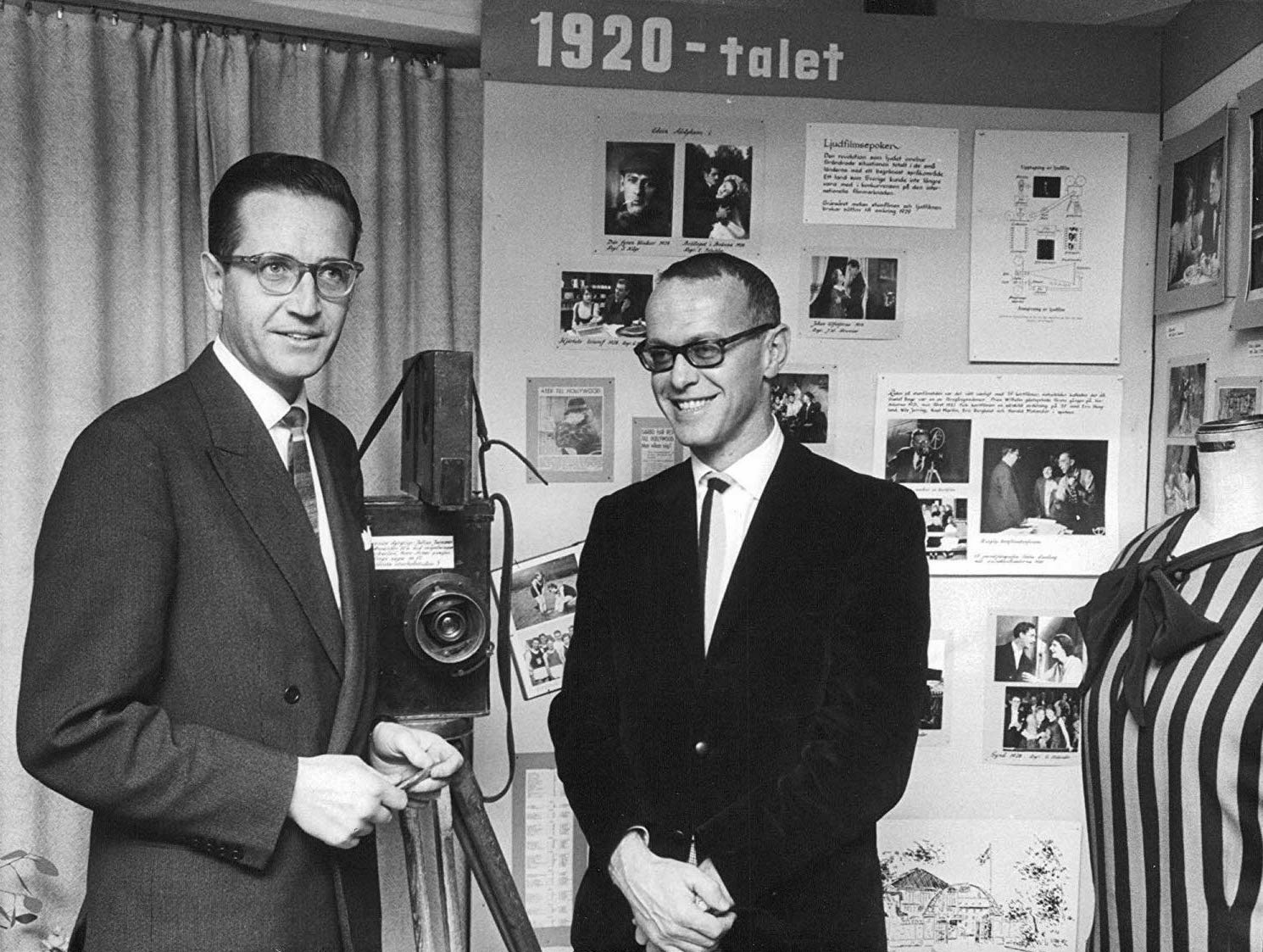 Kenne Fant, CEO of Svensk Filmindustri, and Harry Schein, Managing Director of the Swedish Film Institute, visiting the exhibition "Svensk filmkavalkad" at Sundbyberg City Library. Here, they are seen with Jaenzon's camera and Greta Garbo's dress in the 1920's section.